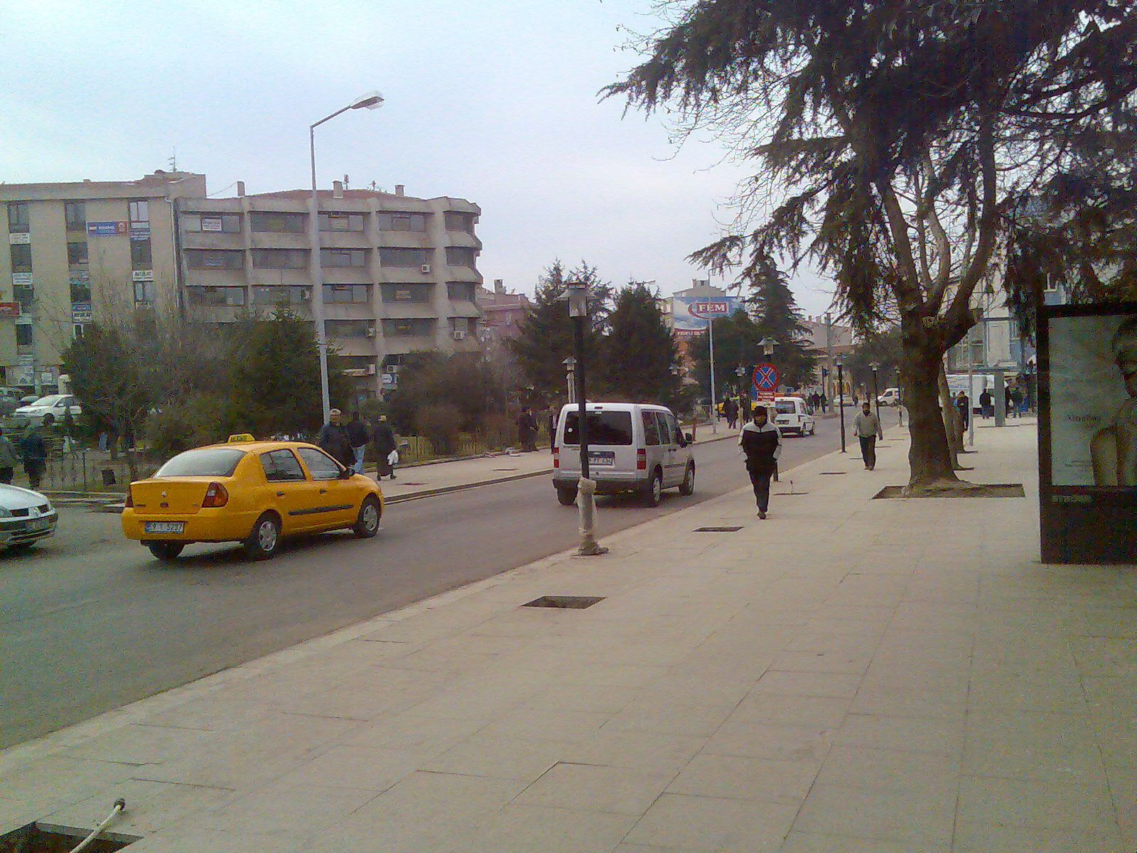 Downtown Çorlu